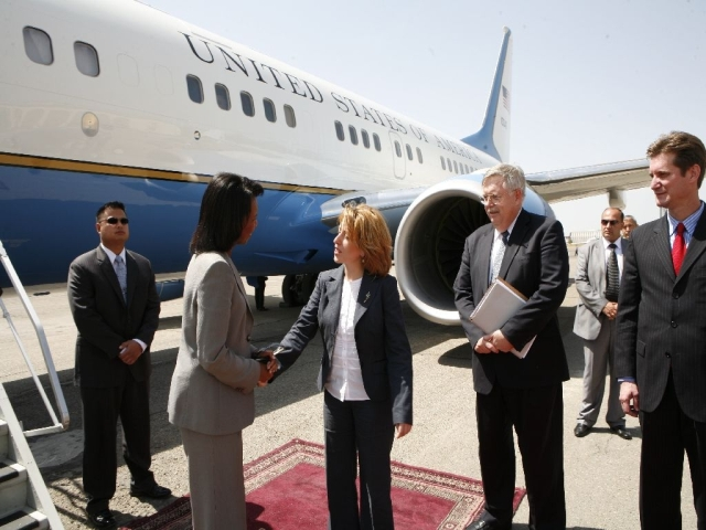 Arrival of Secretary, meeting w/Eka Tkheshelashvili, US Ambassador of Georgia John Tefft and Matthew Bryza.